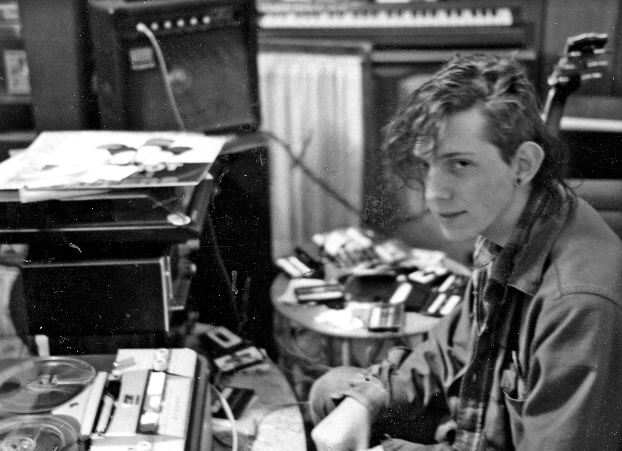 A boy and his battered Norelco open-reel recorder (and Optigan organ in the background, how I miss that thing) -- 1987, College Park MD Tags: Hawkins, IntangibleArts, 1980s, scan